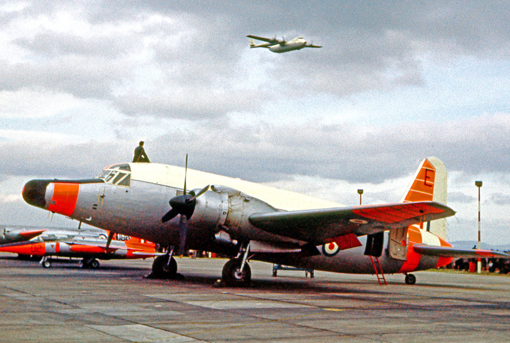 Vickers Valetta T.4 WJ485 of No. 2 ANS at RAF Middleton St George in 1963